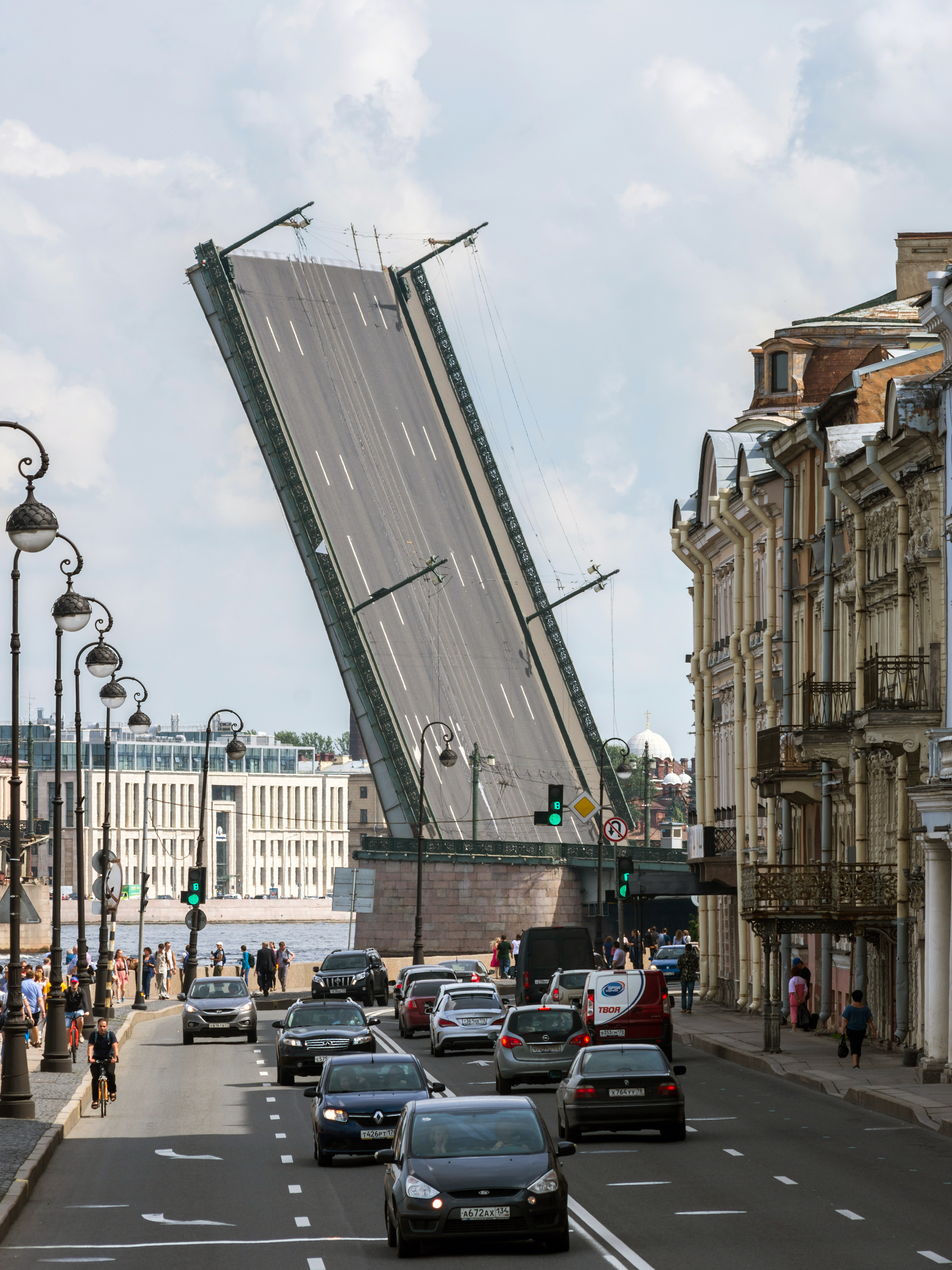 Raised Span of Liteyny Bridge in Saint Petersburg